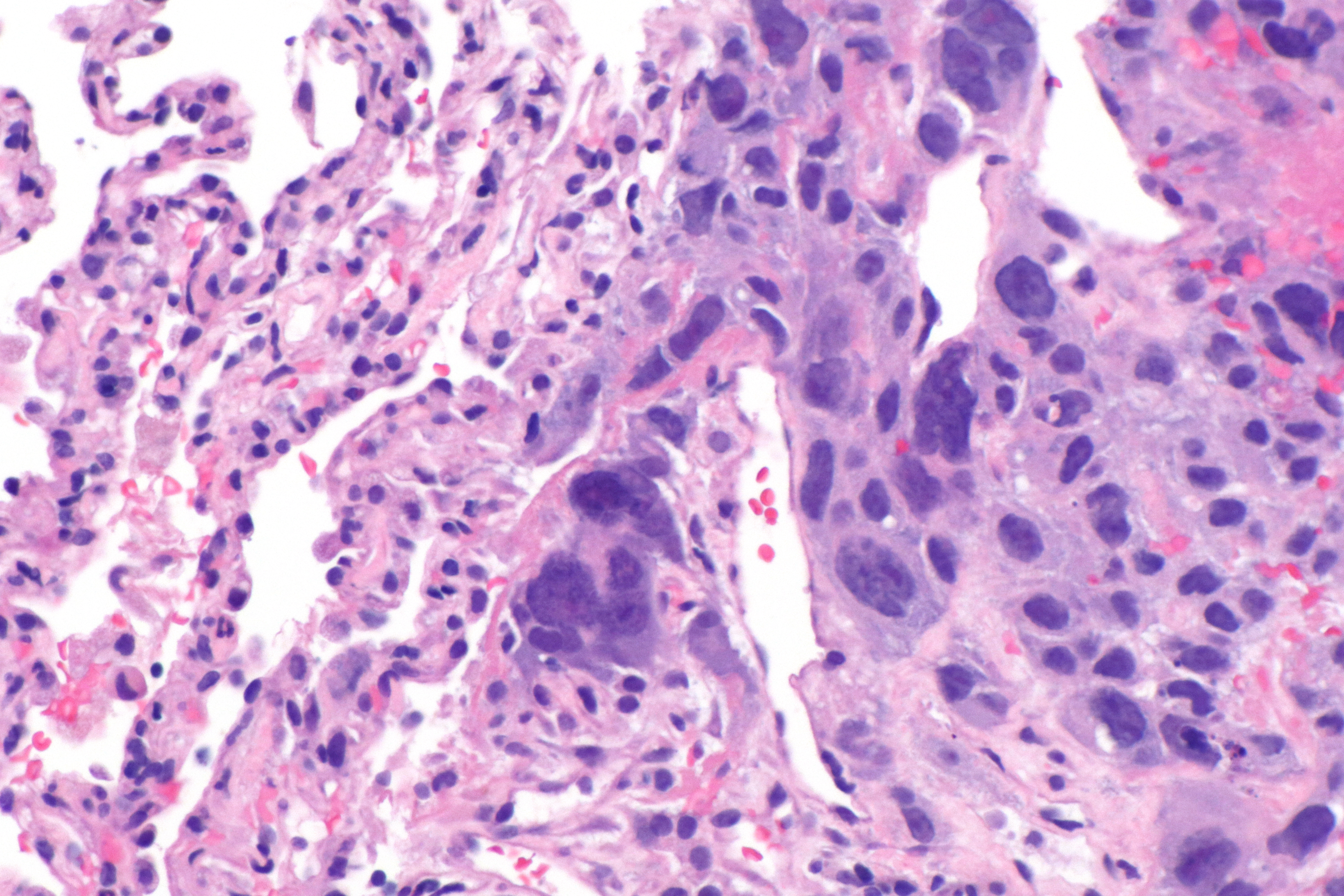 Micrograph showing a choriocarcinoma. H&E stain. Lung biopsy. The tumour stained with SALL4 and β-hCG. Related images Choriocarcinoma - low mag. Choriocarcinoma - intermed. mag. Choriocarcinoma - high mag. Choriocarcinoma - high mag. Choriocarcinoma - very high mag. Choriocarcinoma - very high mag.